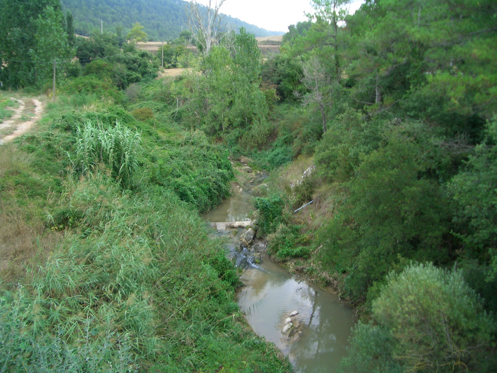 Picture of river Gaià (Catalonia)